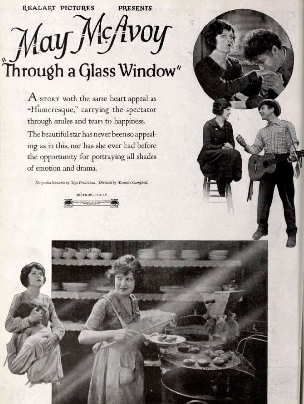 Advertisement for the American drama film Through a Glass Window (1922) with May McAvoy, on page 12 of the April 1, 1922 Exhibitors Herald.